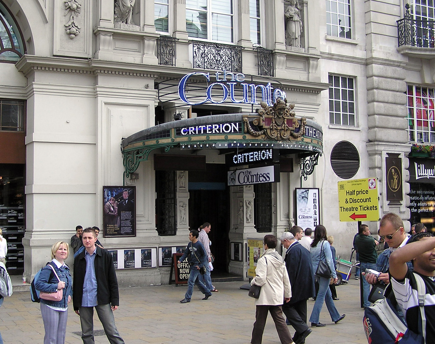 The Criterion Theatre in Piccadilly. Photographed by Adrian Pingstone in June 2005 and released to the public domain.